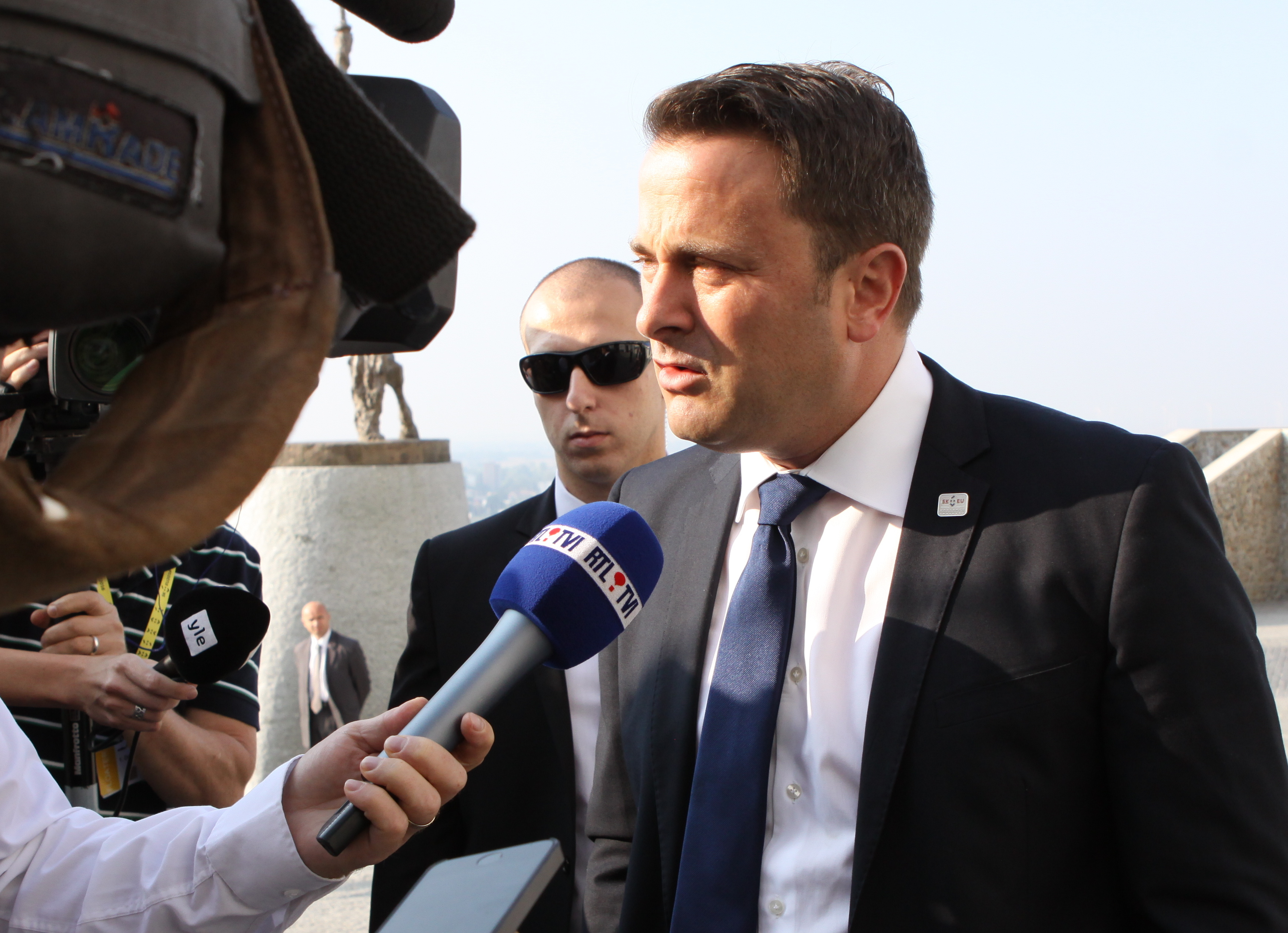 Luxembourg, Mr. Xavier Bettel, Prime Minister of the Grand Duchy of Luxembourg Informal Meeting of the 27 Heads of the State or Government Photo: Andrej Klizan